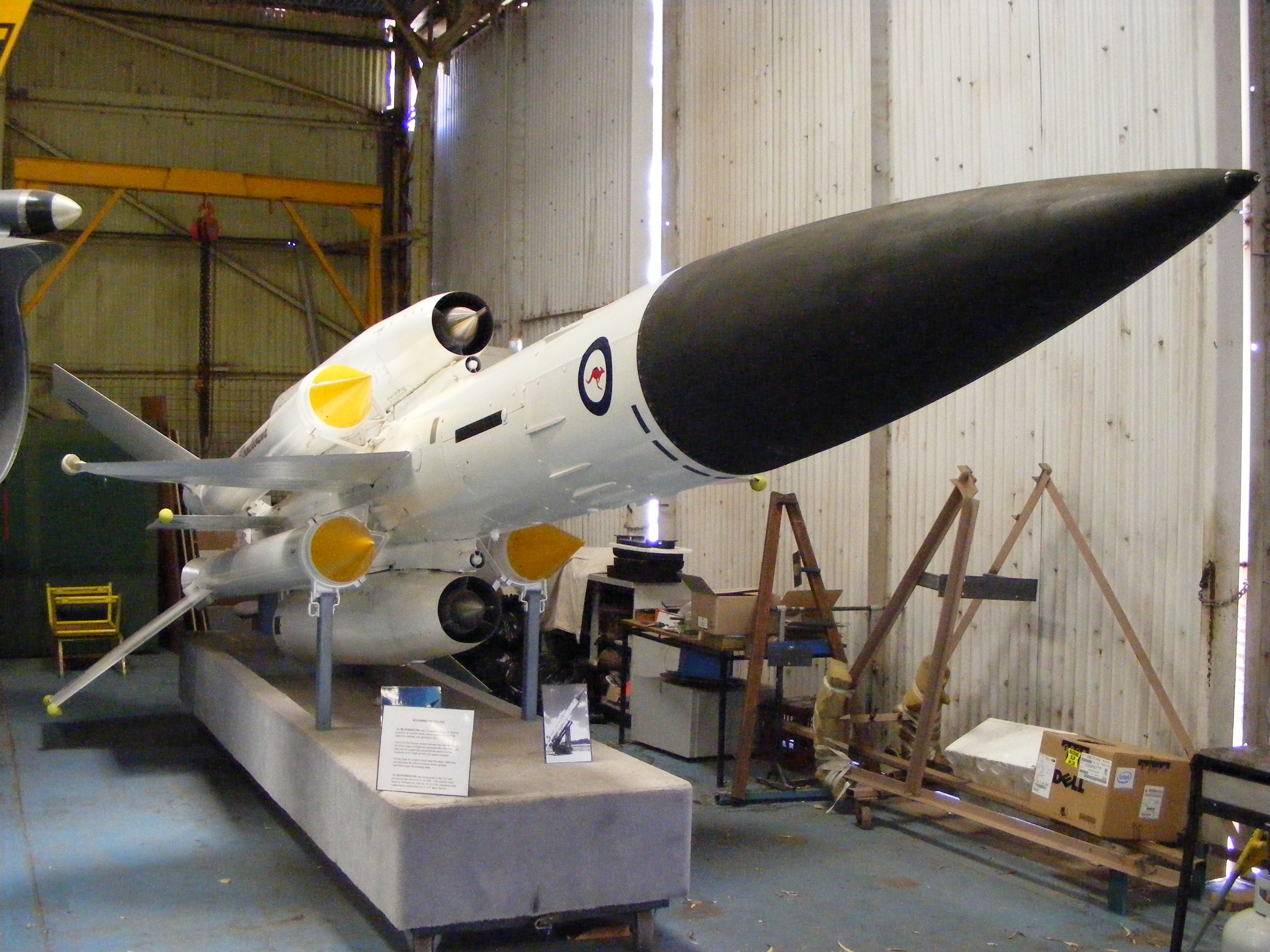 Bloodhound SAM missile. On display at the Classic Jets Fighter Museum, Parafield airport, Adelaide, South Australia.